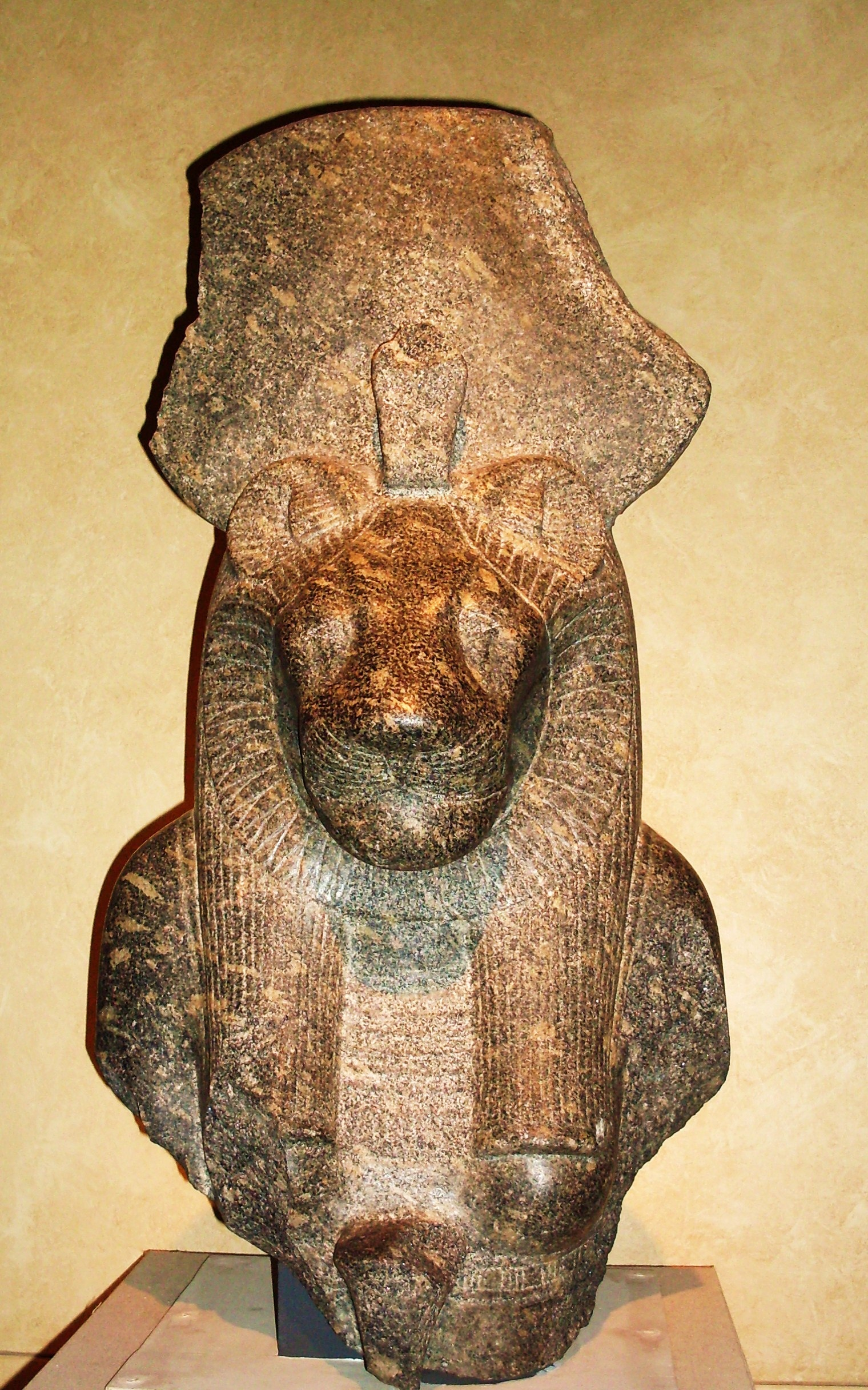 Statue of Sekhmet, the Egyptian lion-headed goddess.Thebes, c.1390-1353 B.C. Displayed at the University of Pennsylvania Archeology and Anthropology Museum, Philadelphia. Sekhmet was worshiped both as a powerful war-god and as a protector who wards off plagues. Her important weapon is her fiery breath, which is believed to have created the hot desert winds. She is the consort of the creator-god Ptah and the mother of the god Nefertem.